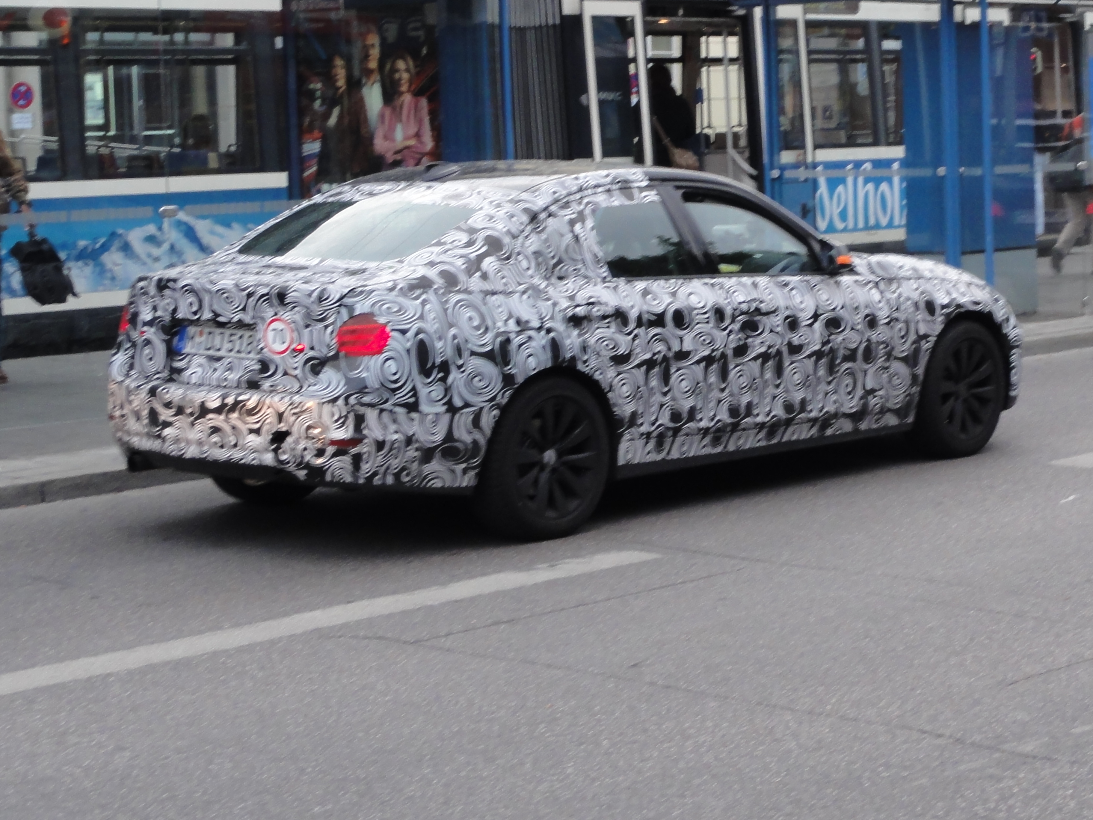 BMW Pre-production car in Munich